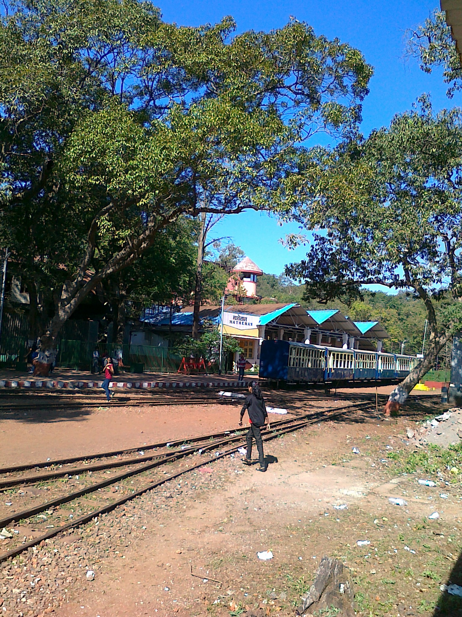 Matheran Railaway station with a toy train running on narrow gauge